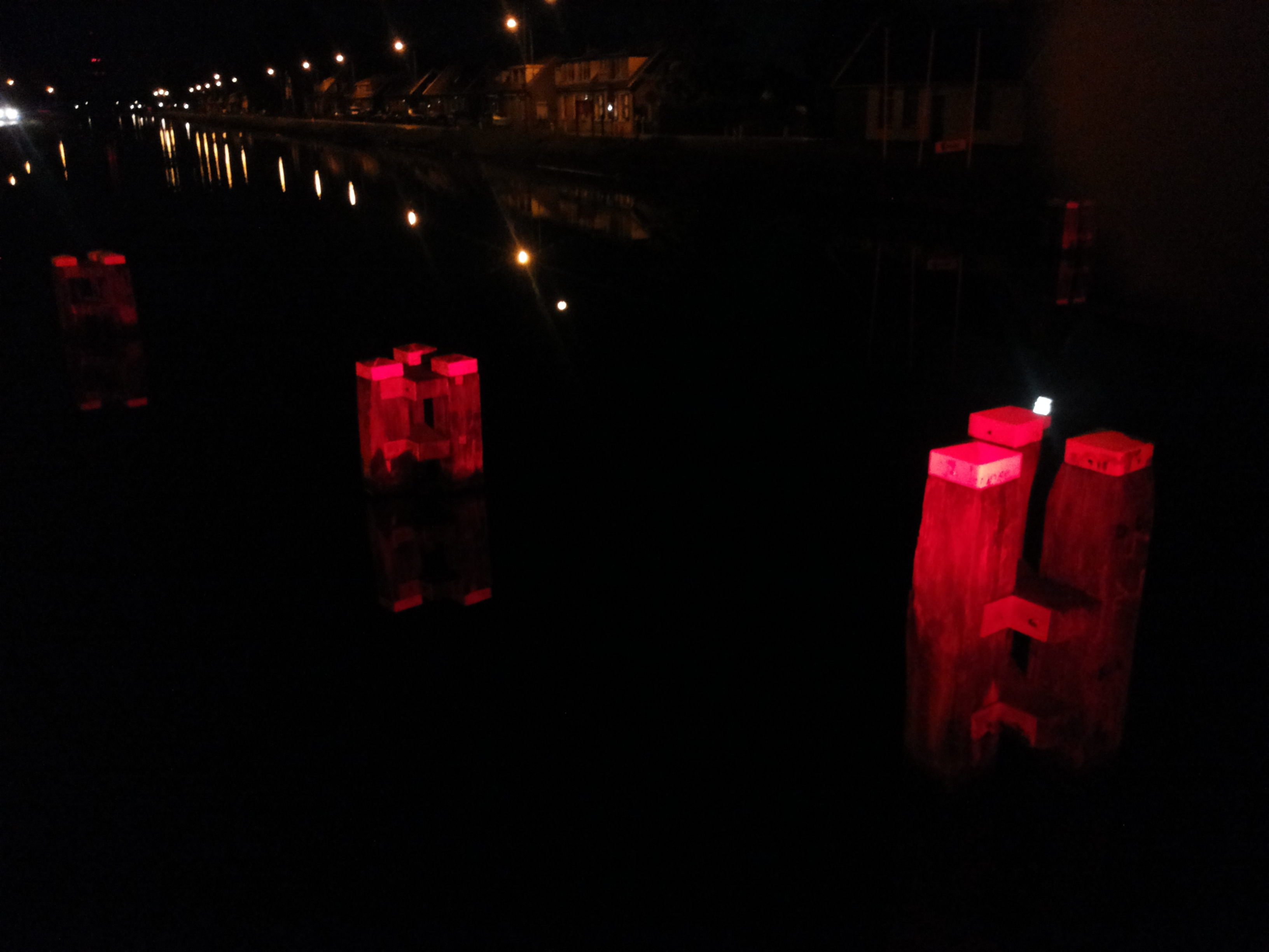 Wilhelminadorp with canal from Goes to the Eastern Scheldt at night.